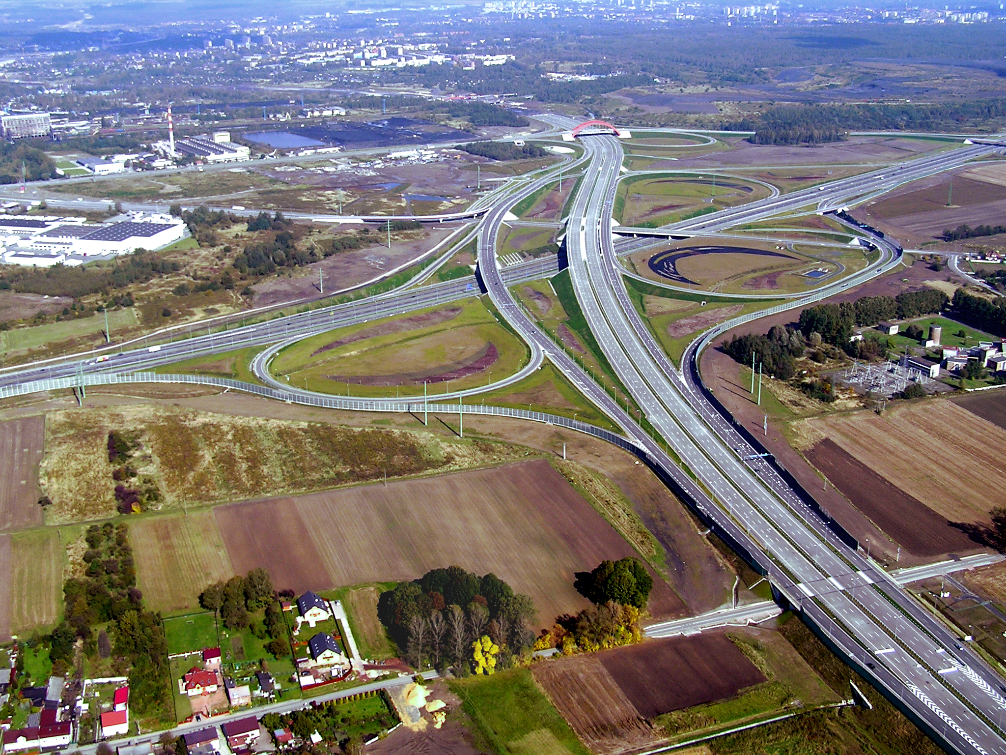 Junction "Gliwice-Sośnica" of the A1 and A4 motorways, and the National Road 44 (Pszczyńska Street) in Gliwice, Silesia, Poland